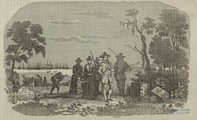 Depiction of John Winthrop landing at Salem in 1630.